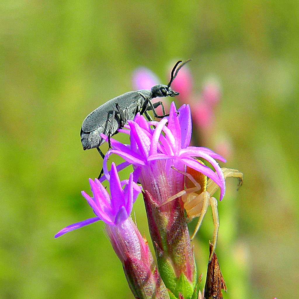 A Florida blister beetle (Epicauta floridensis) perched upon a Liatris sp. at Jonathan Dickinson State Park, Martin County, Florida. The beetle is probably scarier than the spider!